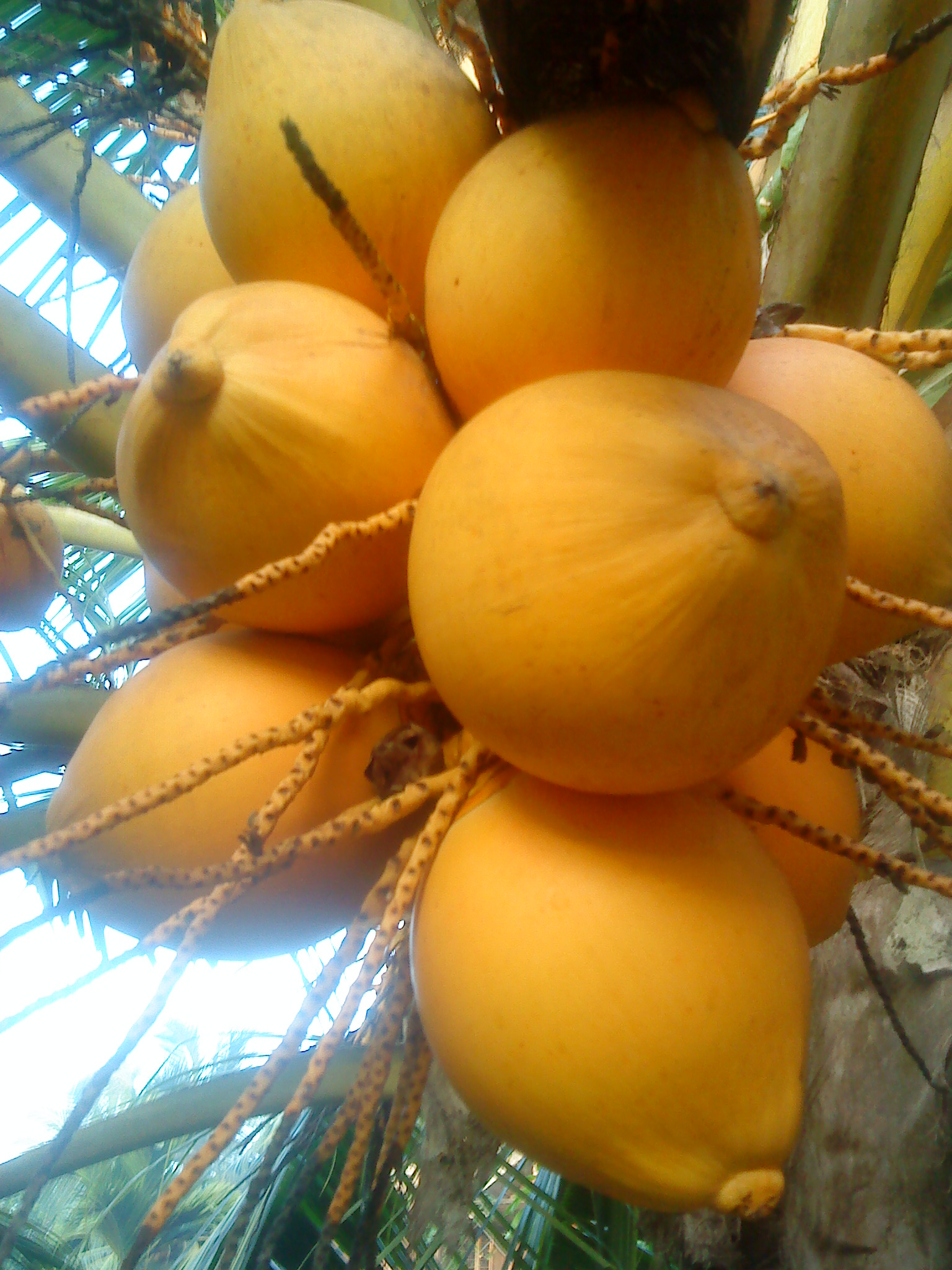 A verity of Coconut with attractive yellow color. It is mainly used as tender coconut